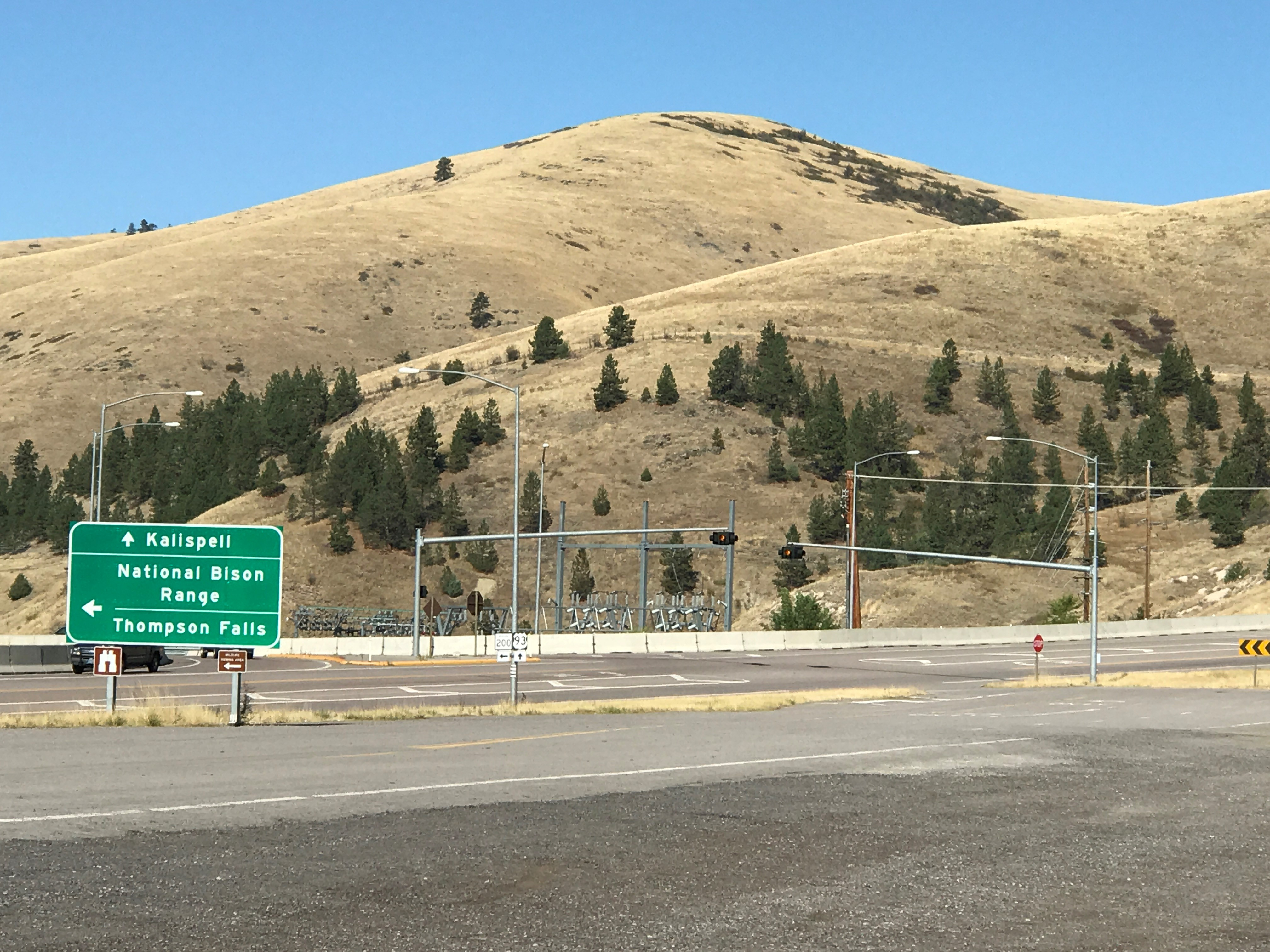 Road sign at junction of US Route 93 and Montana Highway 200 at Ravalli, Montana (Lake County), at the bottom of the hill, near the National Bison Range.